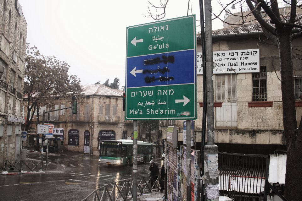 Symbol of Zionism (and Hedonism) - crossed out on this road sign in a religious neighborhood of Jerusalem